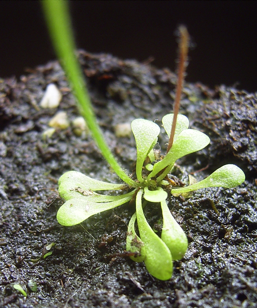 Genlisea lobata Author: Denis Barthel